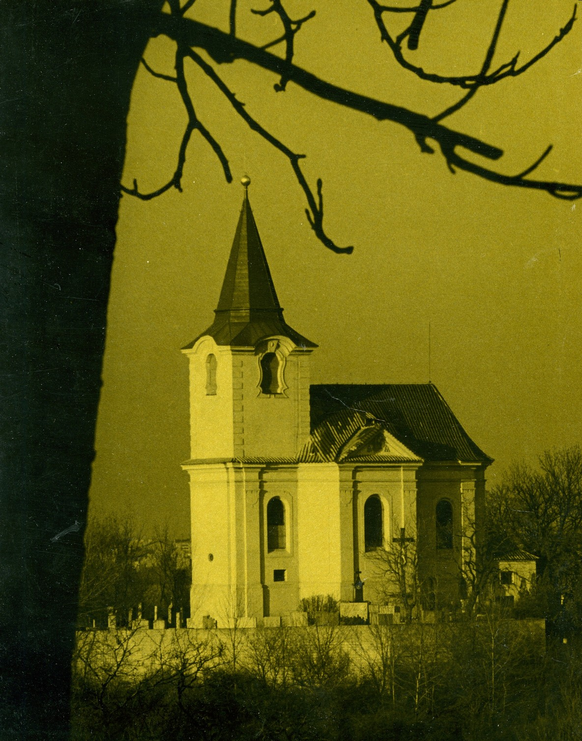 St Matthias Church in Prague 6, Hanspaulka